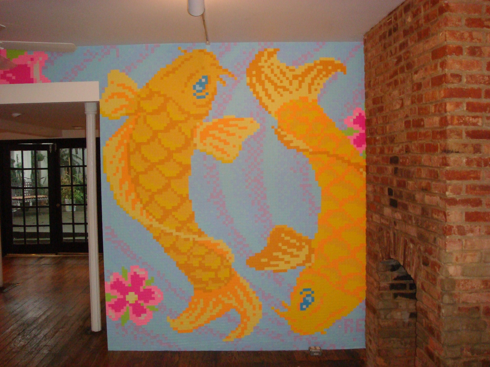 A mosaic made of post-it notes. uploading per request at Wikipedia:Files_for_upload